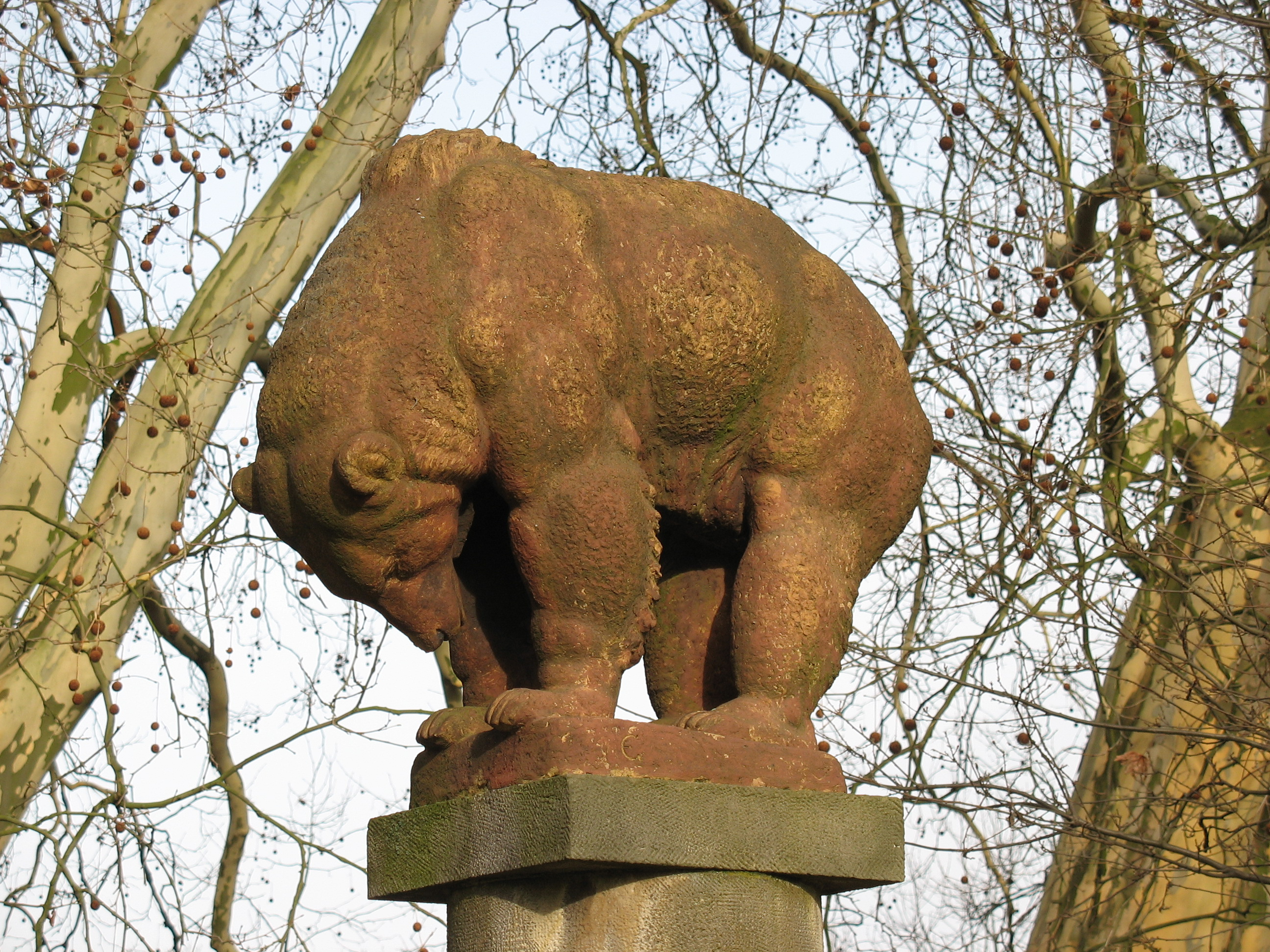 Berlin Bear statue at Bremen ramparts near Doven Gate